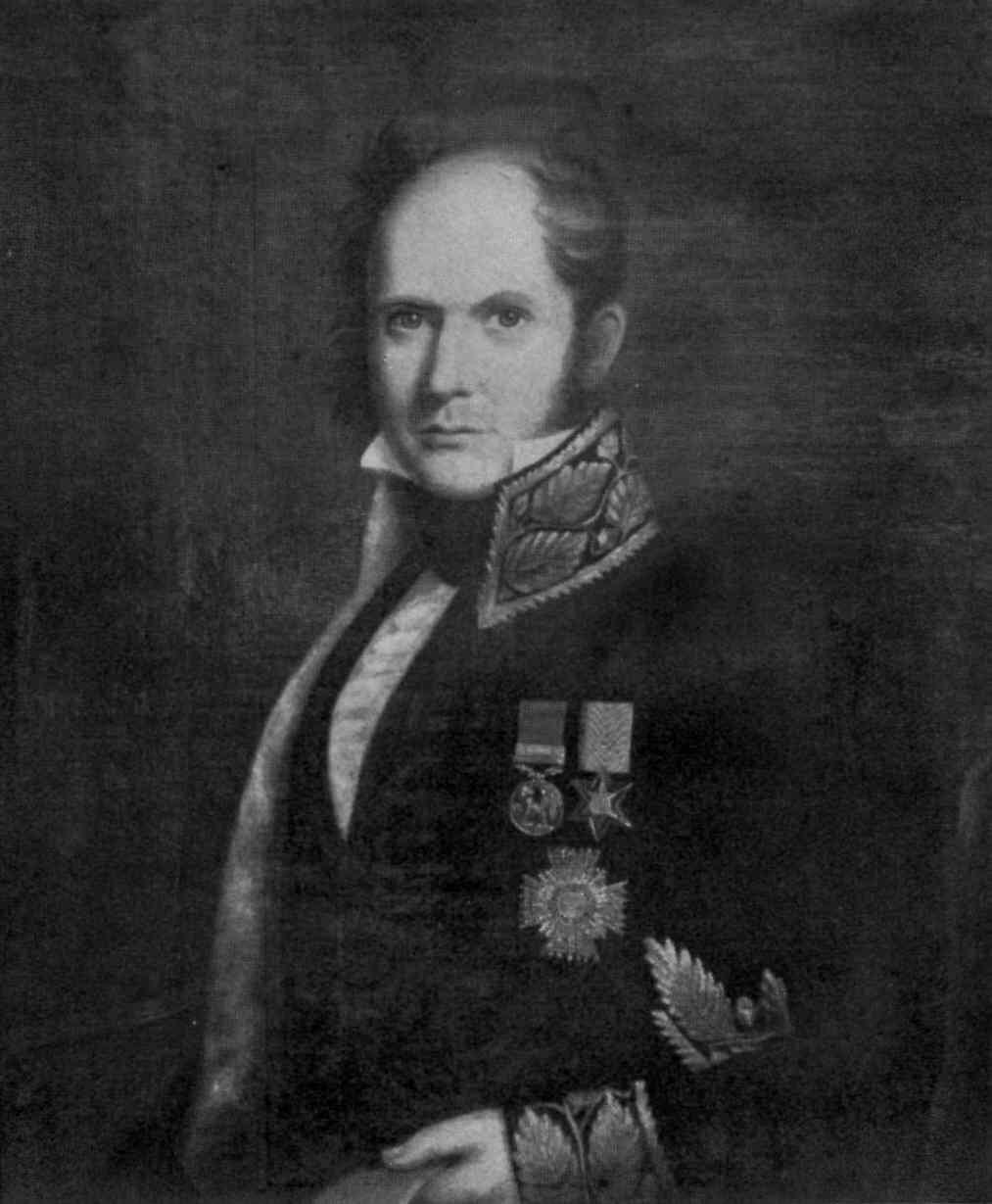 Photo of William Henry Sleeman